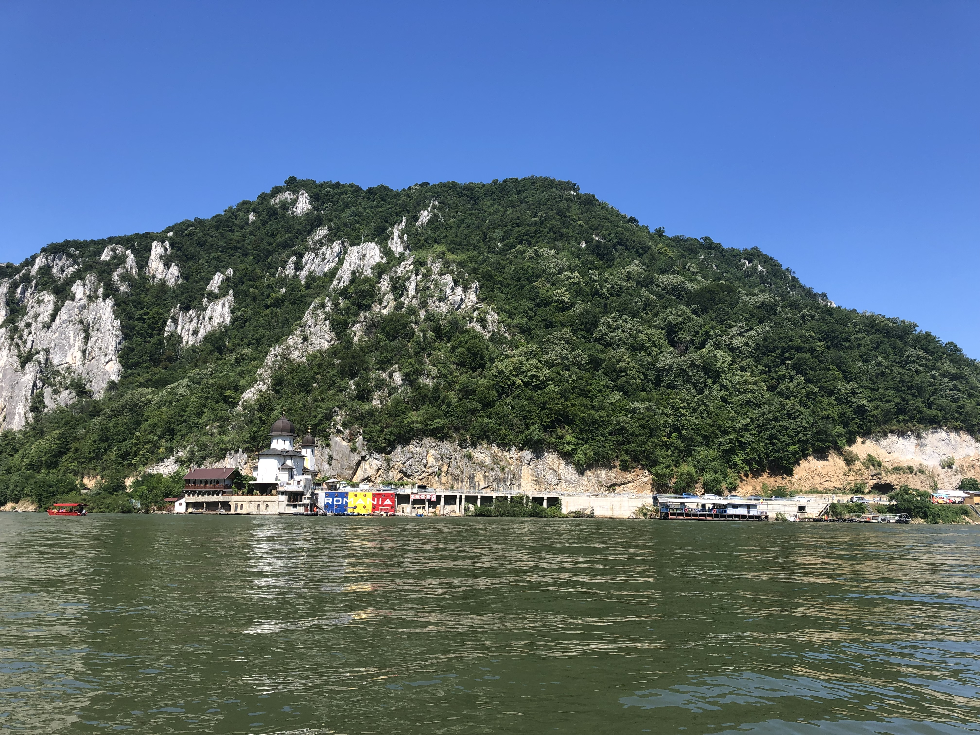 The monastery Mraconia on the Romanian coast of the Iron Gate of Danube. Srpski (latinica): Manastir Mrakonija na rumunskoj obali Đerdapske klisure na Dunavu.